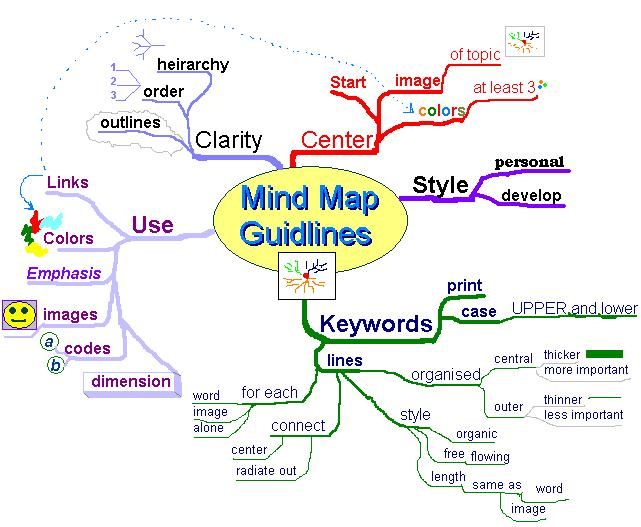 Mind map of the mind map guidlines.